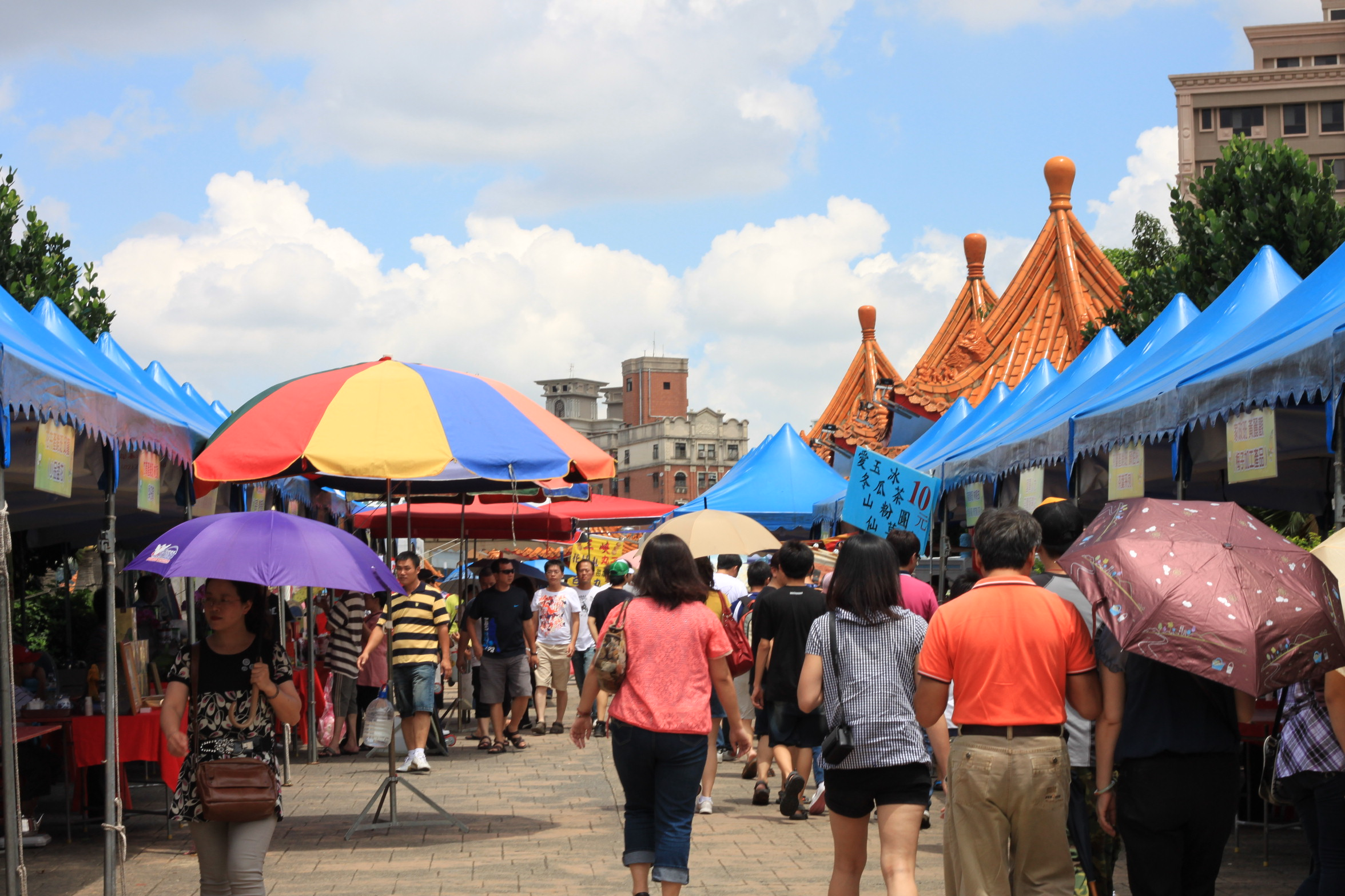 Weekend street market on Changfu Bridge in Sanxia District, New Taipei, Taiwan.